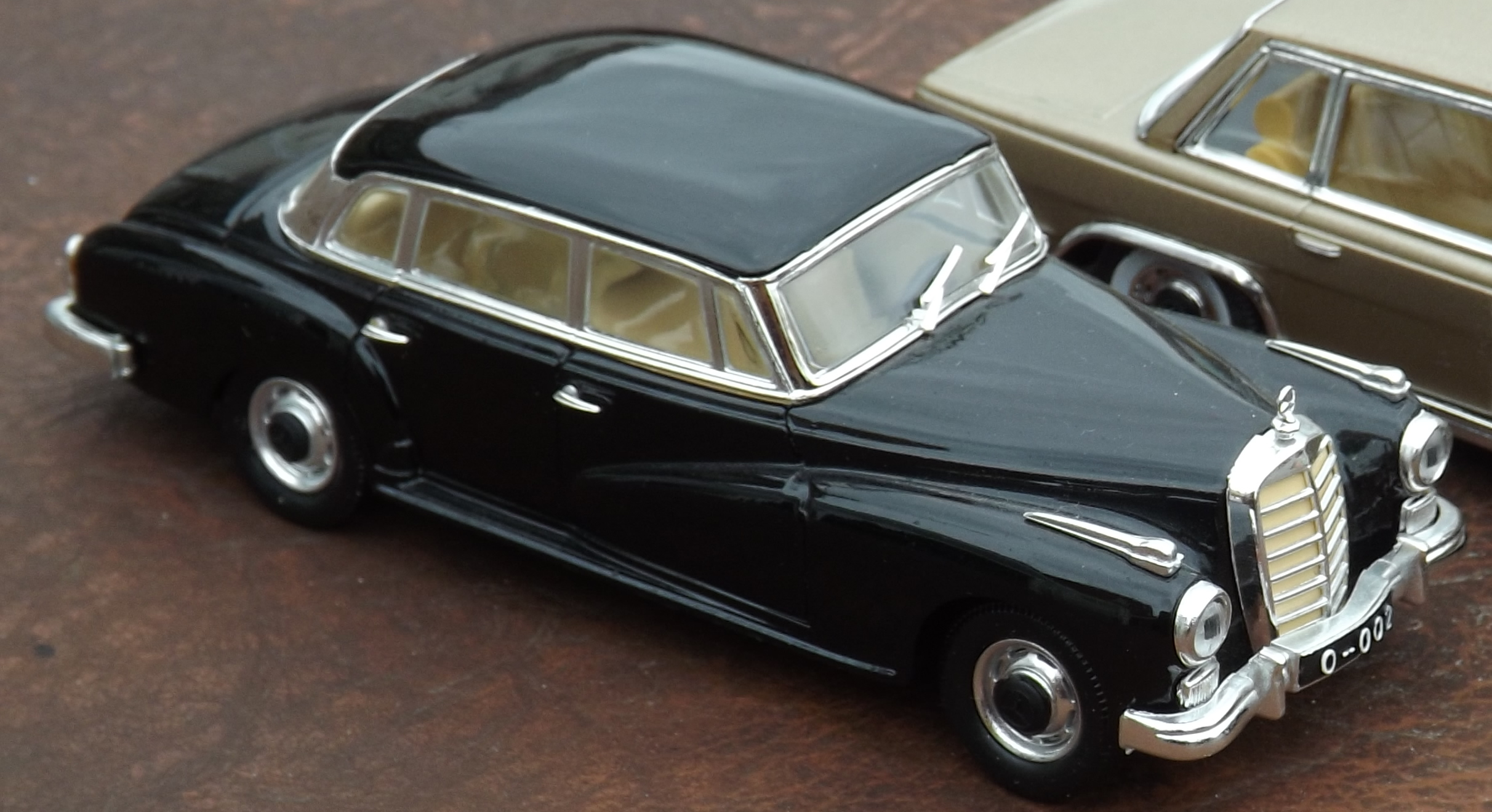 Mercedes-Benz 300 d (W189 "Adenauer") c.1959. Made in Italy by Rio